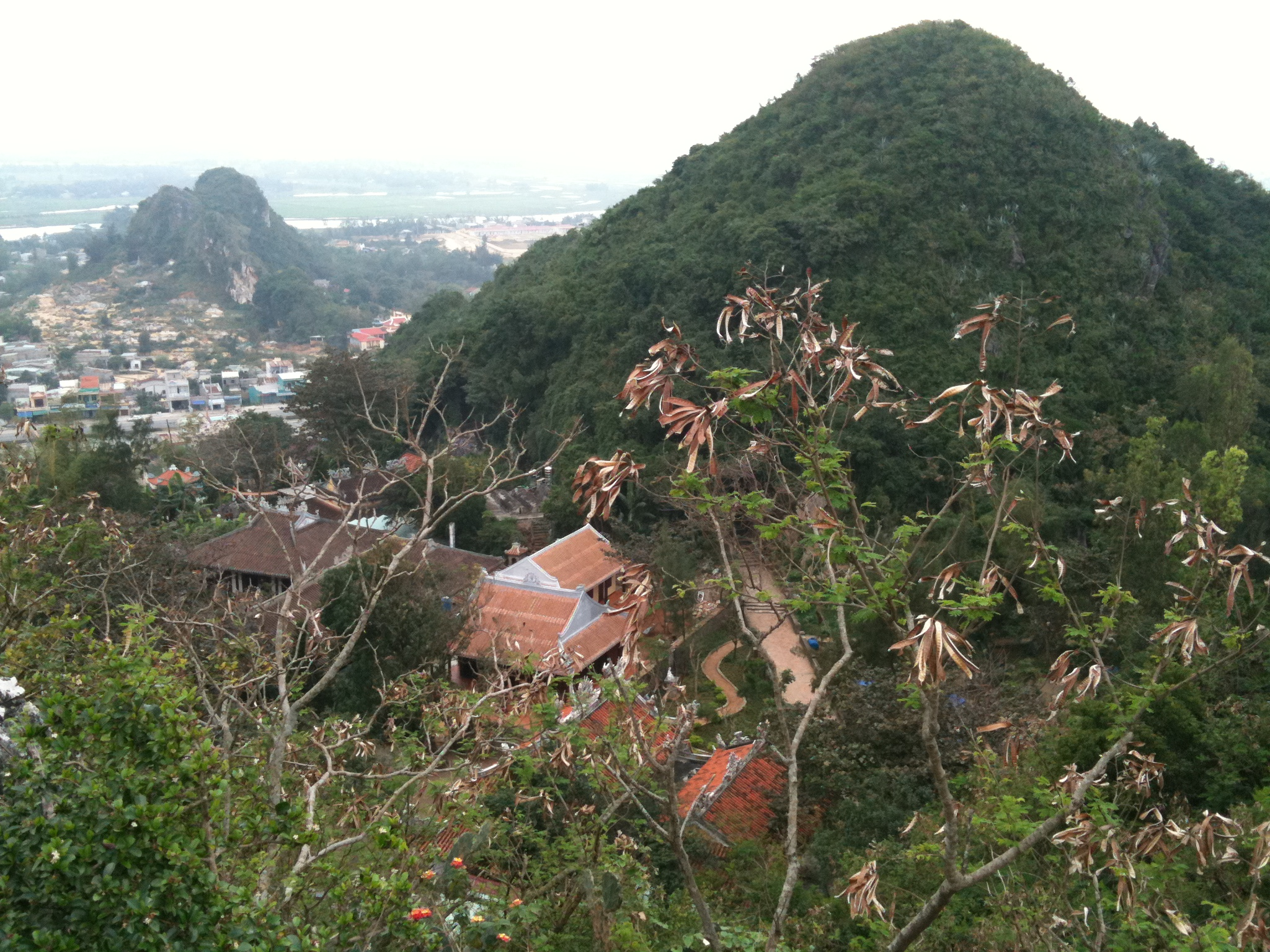 A view of Thuy Son, one of the five Marble Mountains, in Ngu Hanh Son District, Da Nang, Vietnam. Nestled in the centre to lower left of the image is Tam Thai Pagoda; in the background, at upper left, is Tho Son, another of the Marble Mountains.